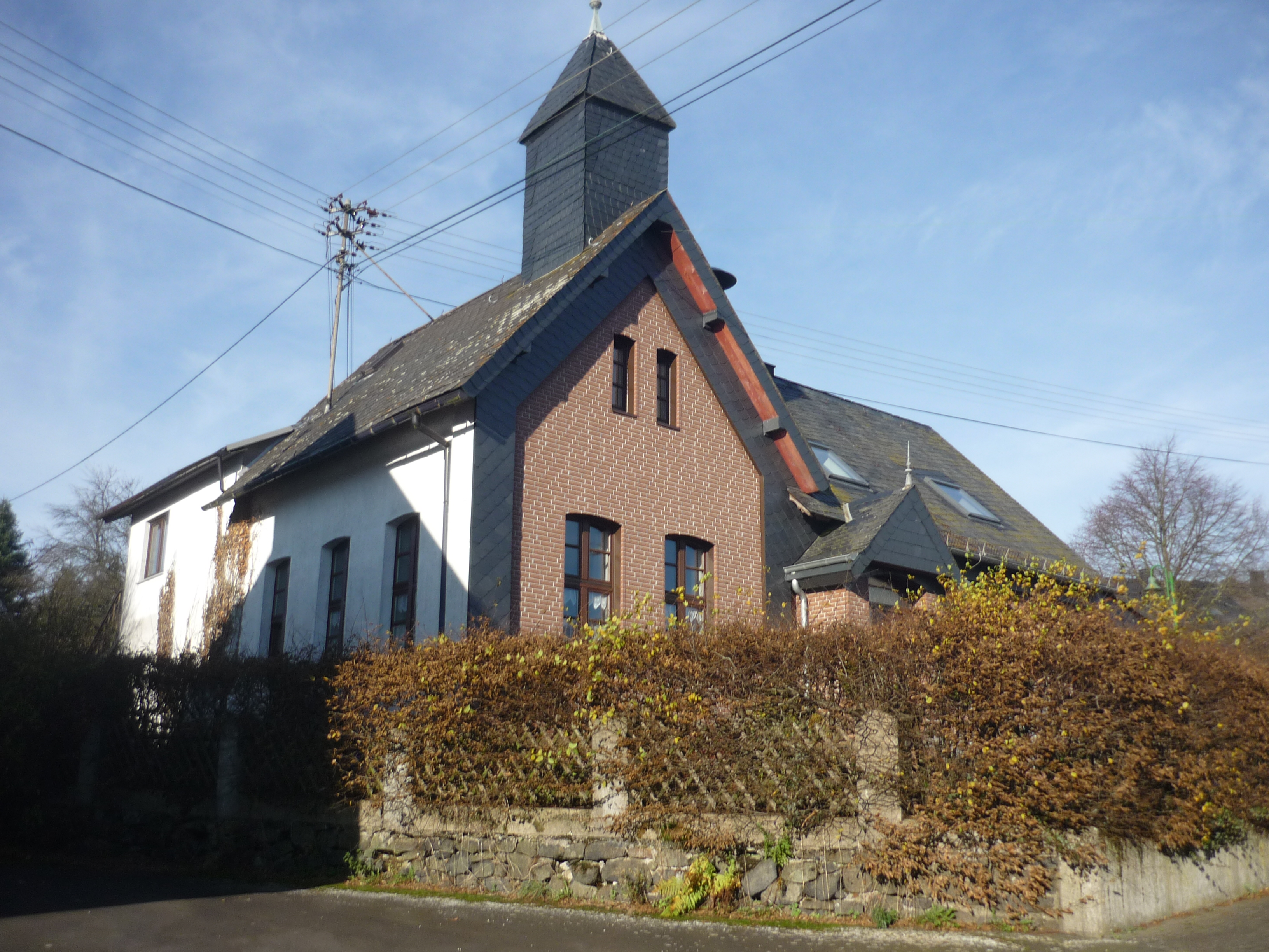 Linden westerwald